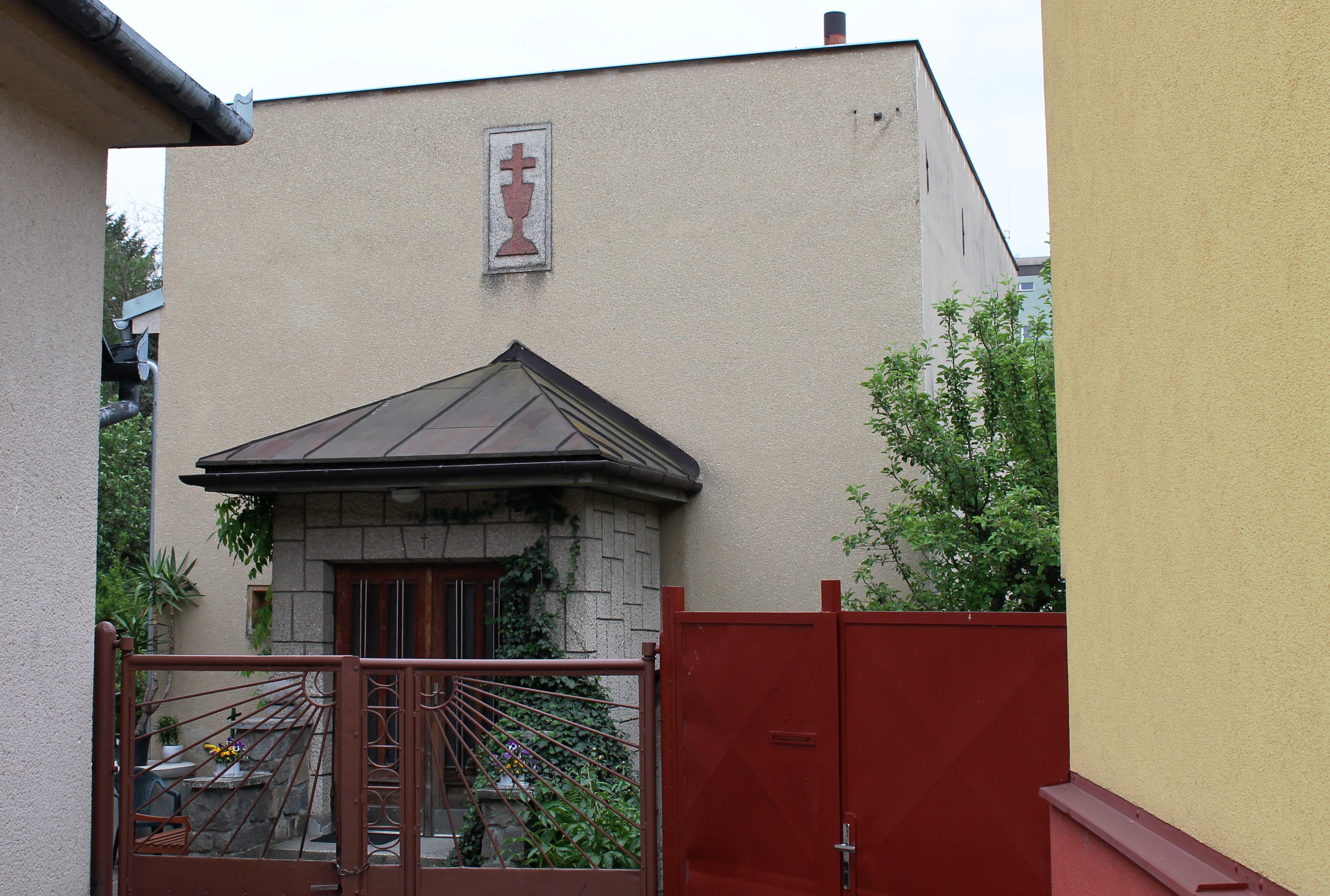 Church of Dr. Karel Farský, Kuřim, Brno-Country District, Czech Republic